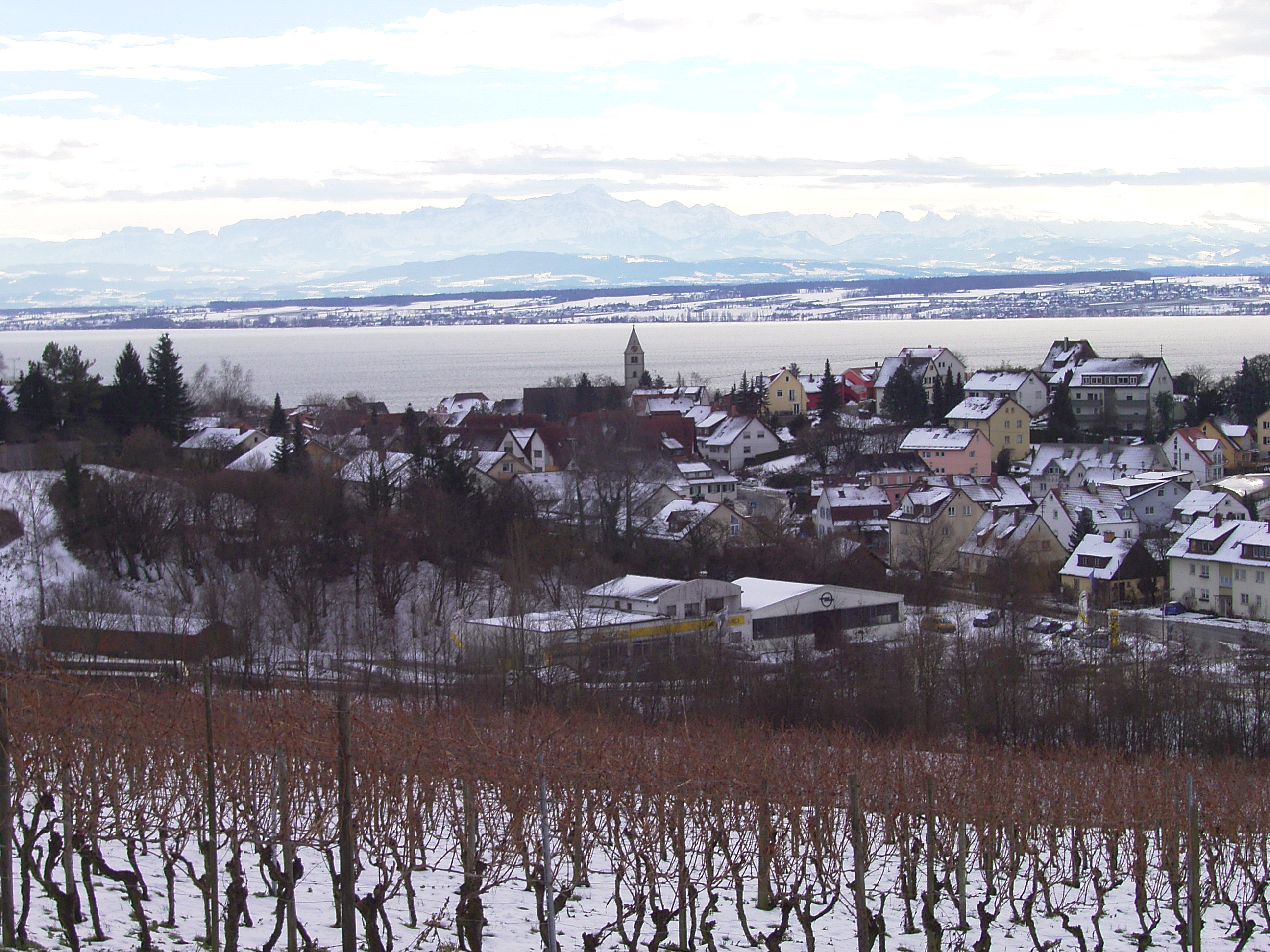 Record of Meersburg in winter